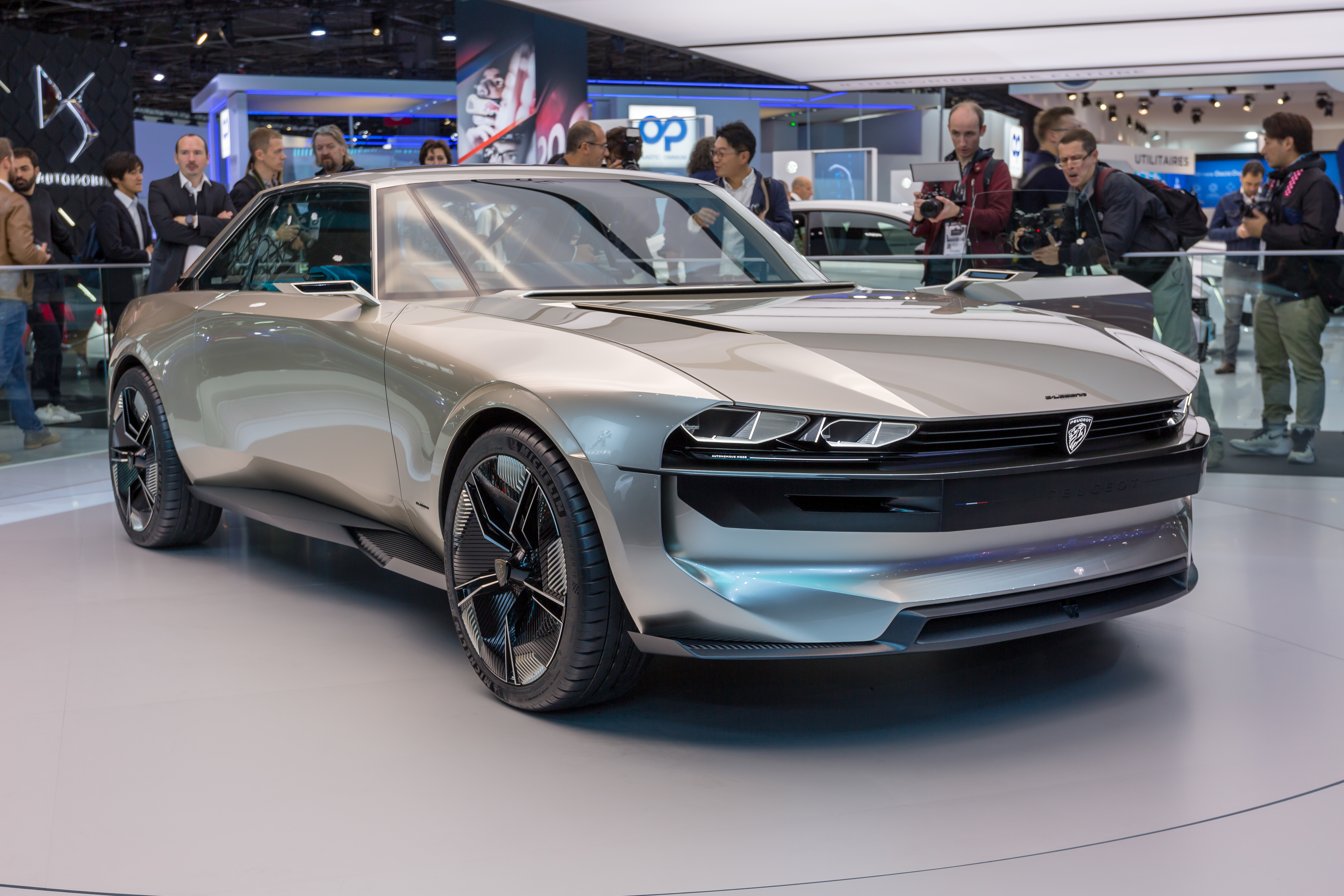 Peugeot e-Legend concept at Mondiale Paris Motor Show 2018